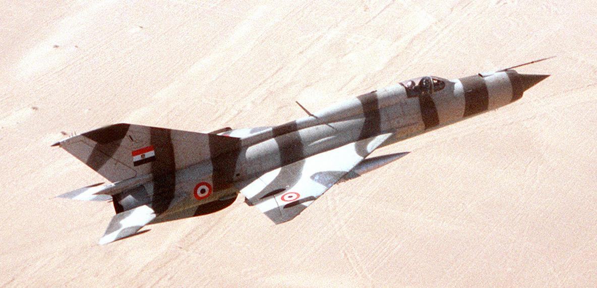 A right side view of aircraft in flight over the desert during exercise Bright Star '82. The aircraft is Egyptian MiG-21PFM.